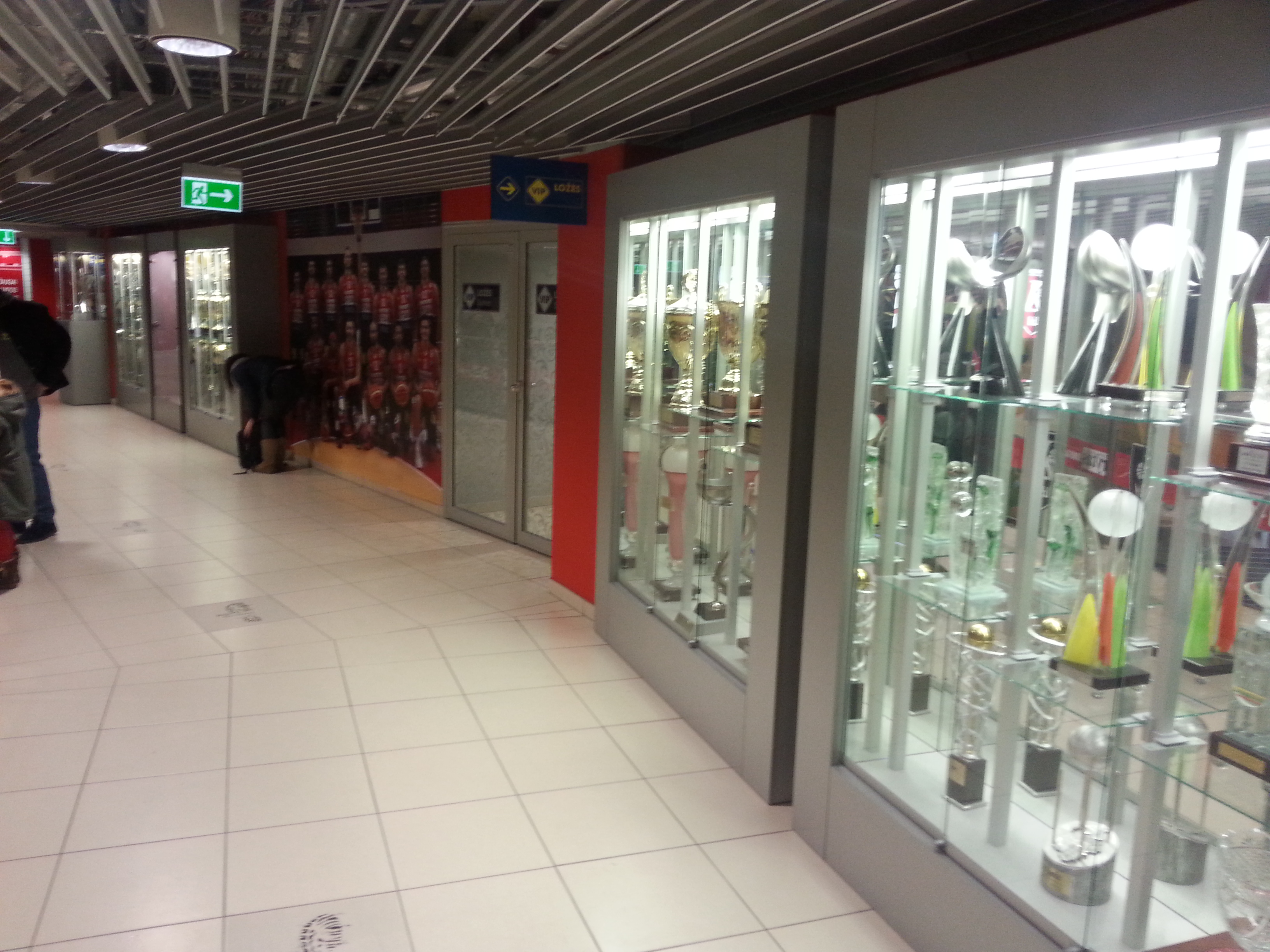 Part of BC Lietuvos rytas Alley of Glory in Siemens Arena, which includes every trophy the club won in its history.